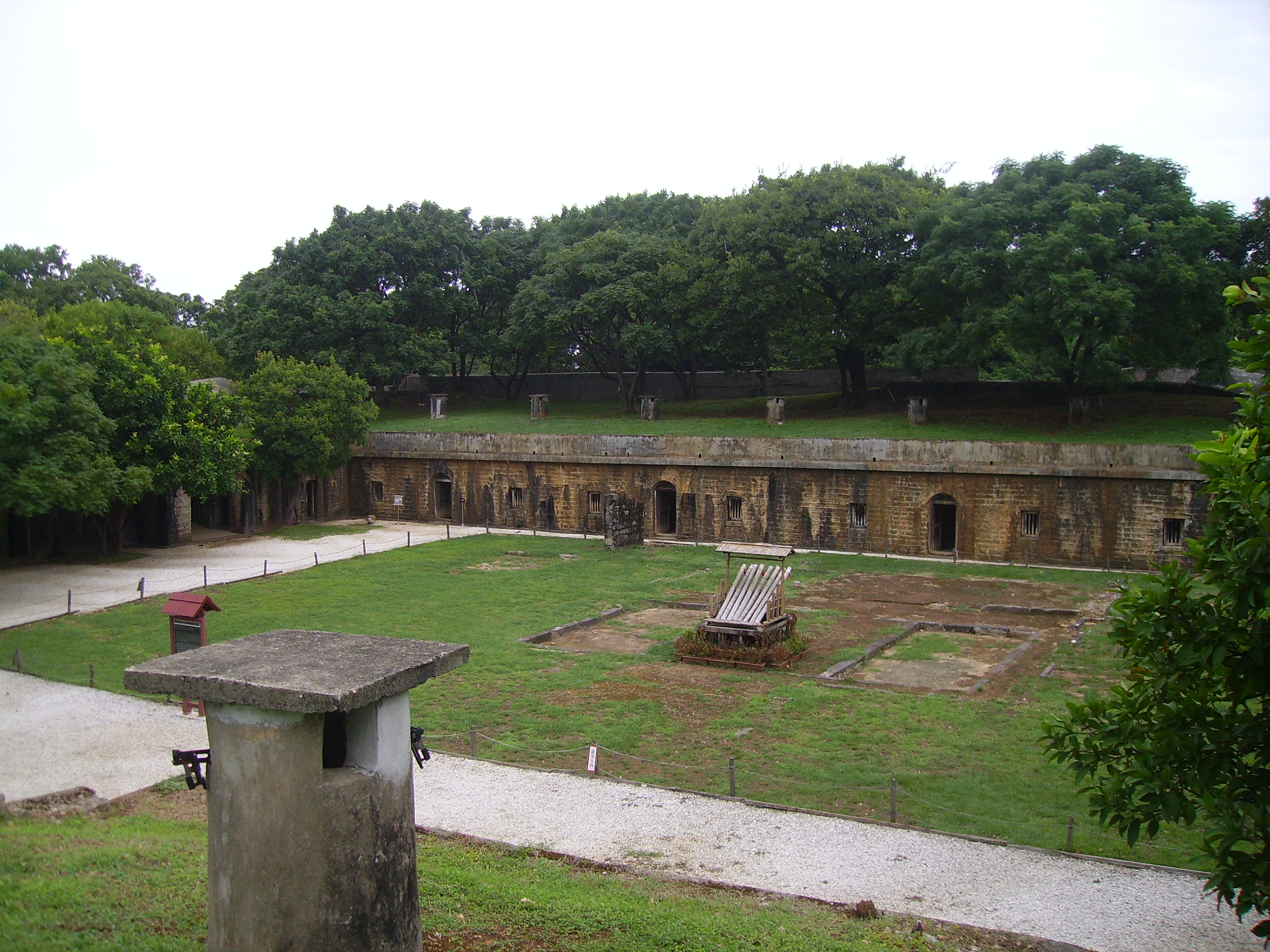 fort in Tamsui Townshippao